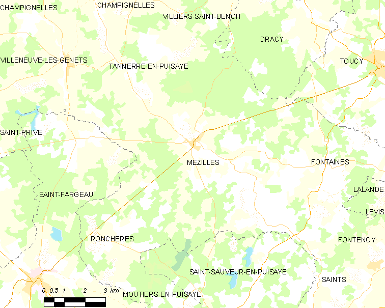 Map of French municipality Mézilles